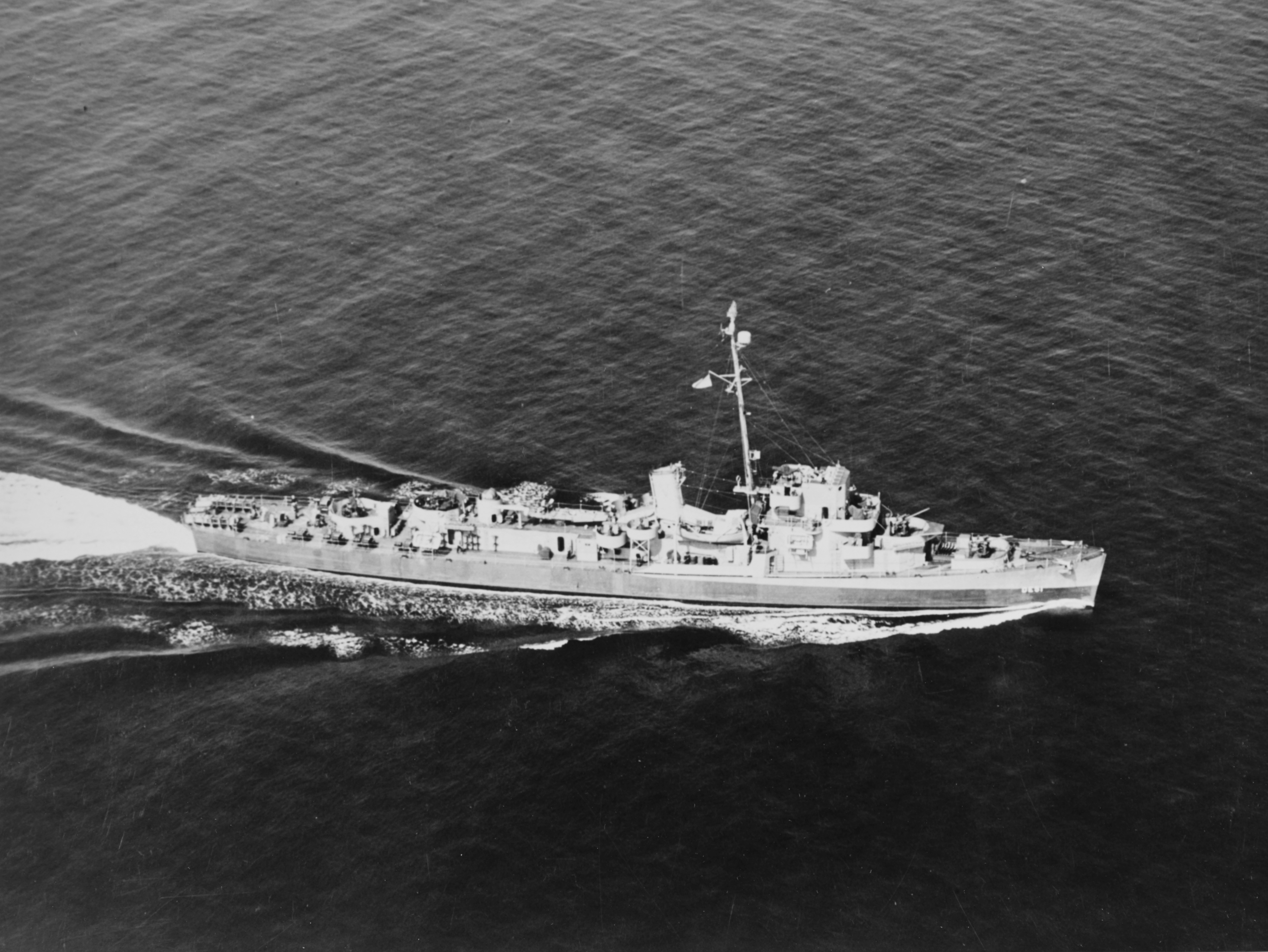 The U.S. Navy destroyer escort USS Buckley (DE-51) underway at twenty knots, during speed trials off Rockland, Maine (USA), on 3 July 1943.